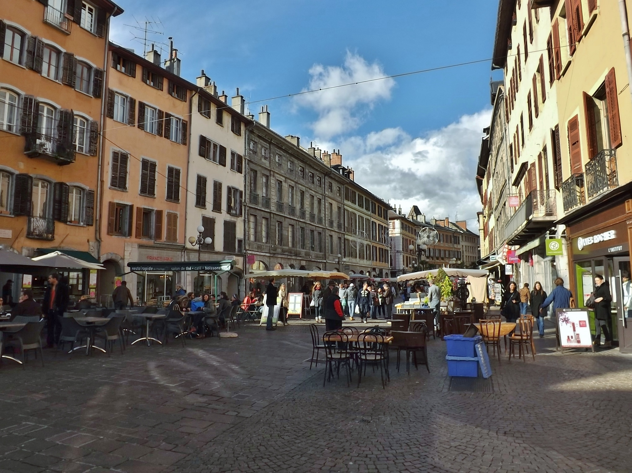 Sight of the Place Saint-Léger and its many shops, main pedestrian street of Chambéry, Savoie, France.